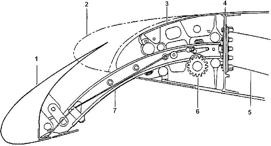 Slat A319 schematic: 1 -Extended slat; 2 -Indrawn slat; 3 -Wing top skin; 4 -Front spar; 5 -Track can; 6 –Gear; 7 -Slat track